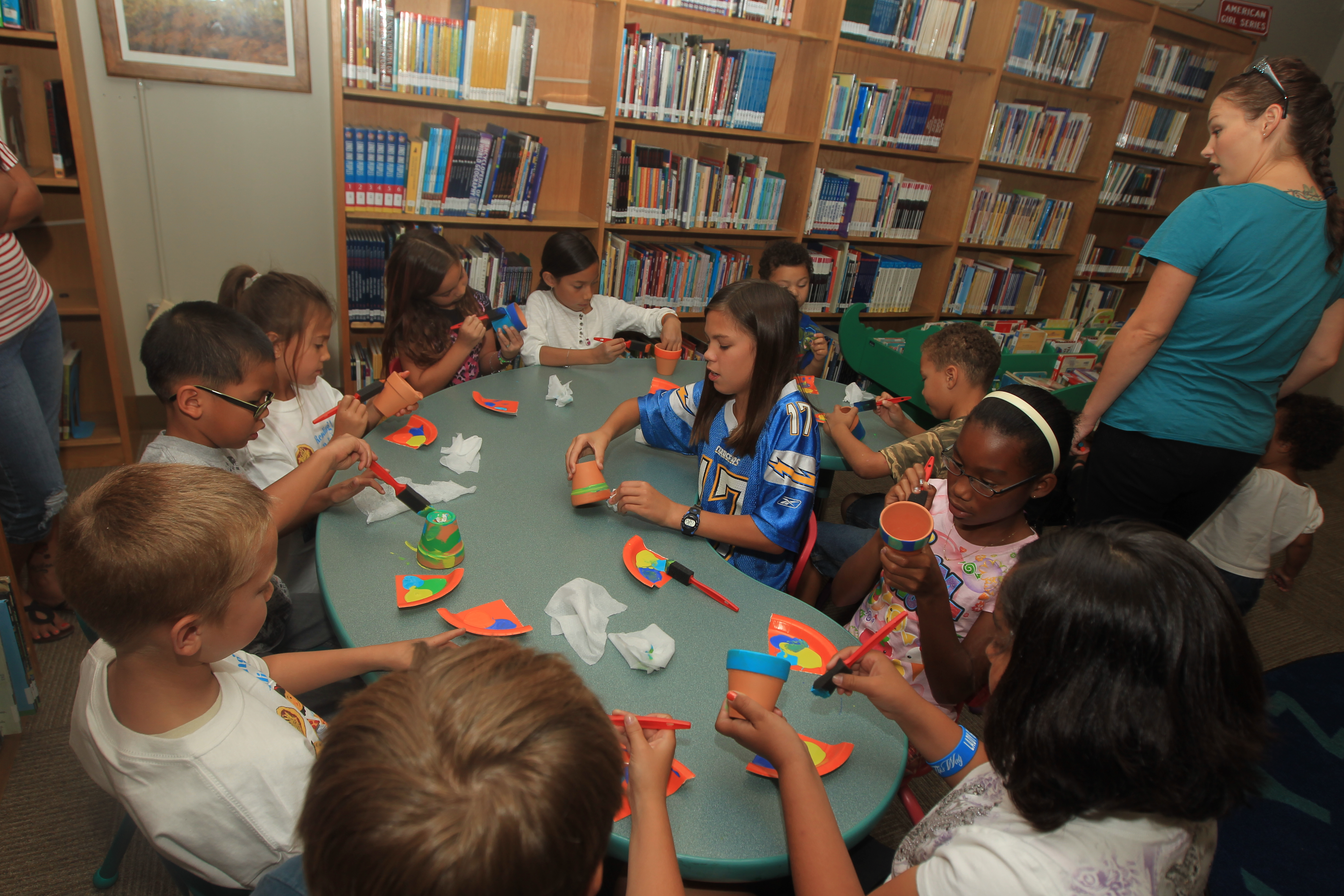 Children color pictures and clay pots during a Summer Reading Program session at the Combat Center’s LifeLong Learning Library, June 22, 2012. Unit: Marine Corps Air Ground Combat Center, Twentynine Palms DVIDS Tags: kids; Marine Corps Air Ground Combat Center; Combat Center; Reading; MCAGCC; Twentynine Palms; Summer Reading Program